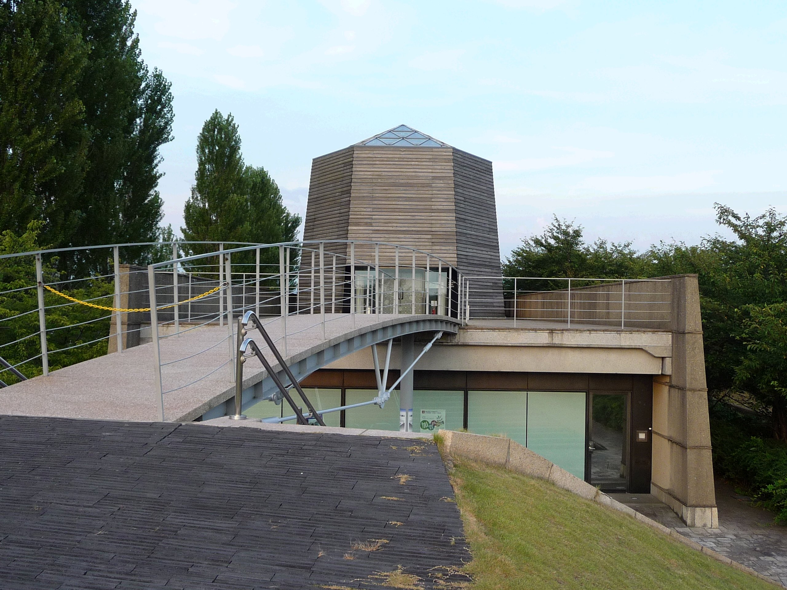 Nakaya Ukichoro Museum of Snow and Ice (the snowflakes like hexagonal building), at Katayamazu onsen, Kaga, Ishikawa, Japan, 2008 Aug., 15